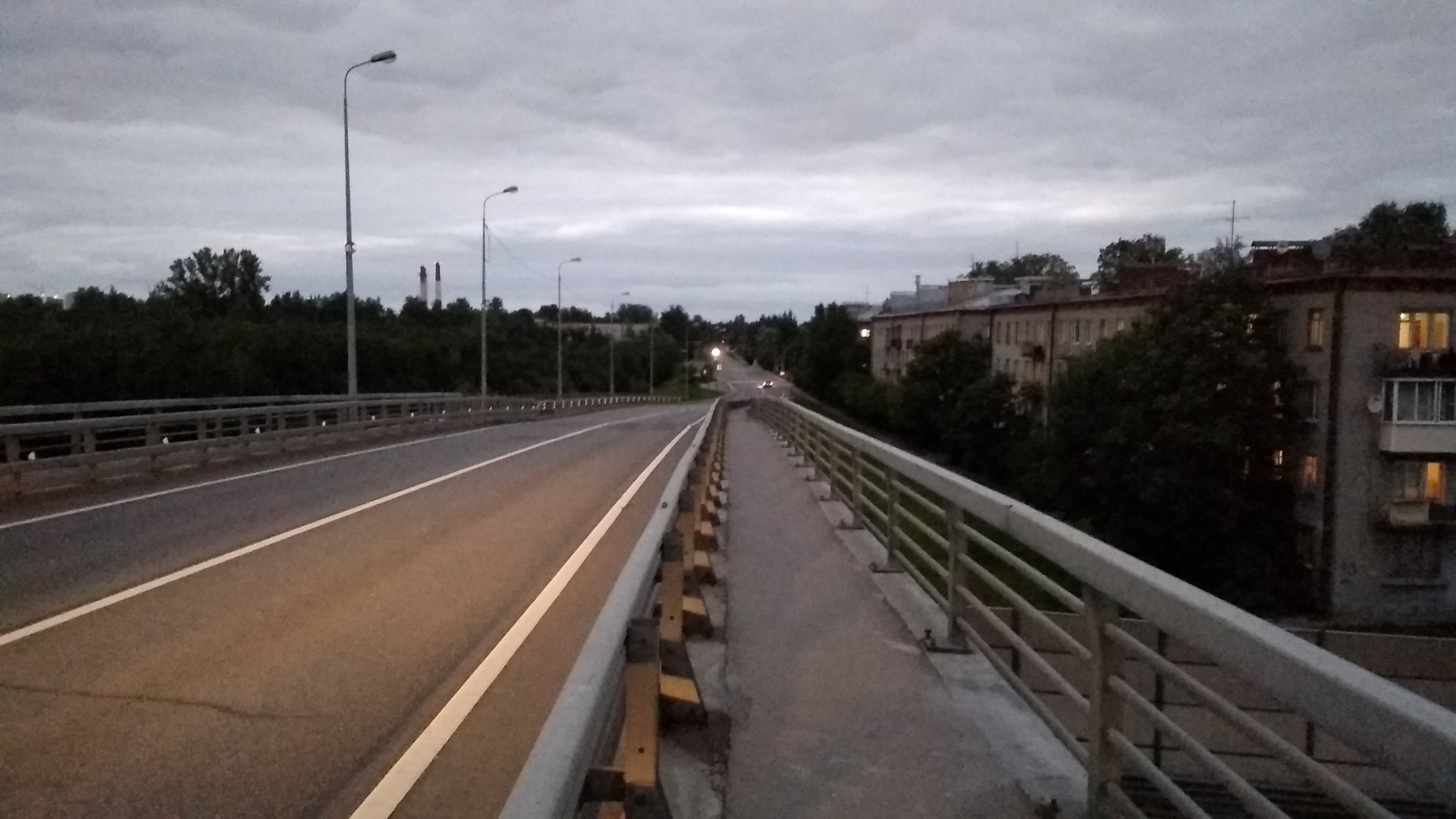 Chelyabinskaya ulitsa St Petersburg